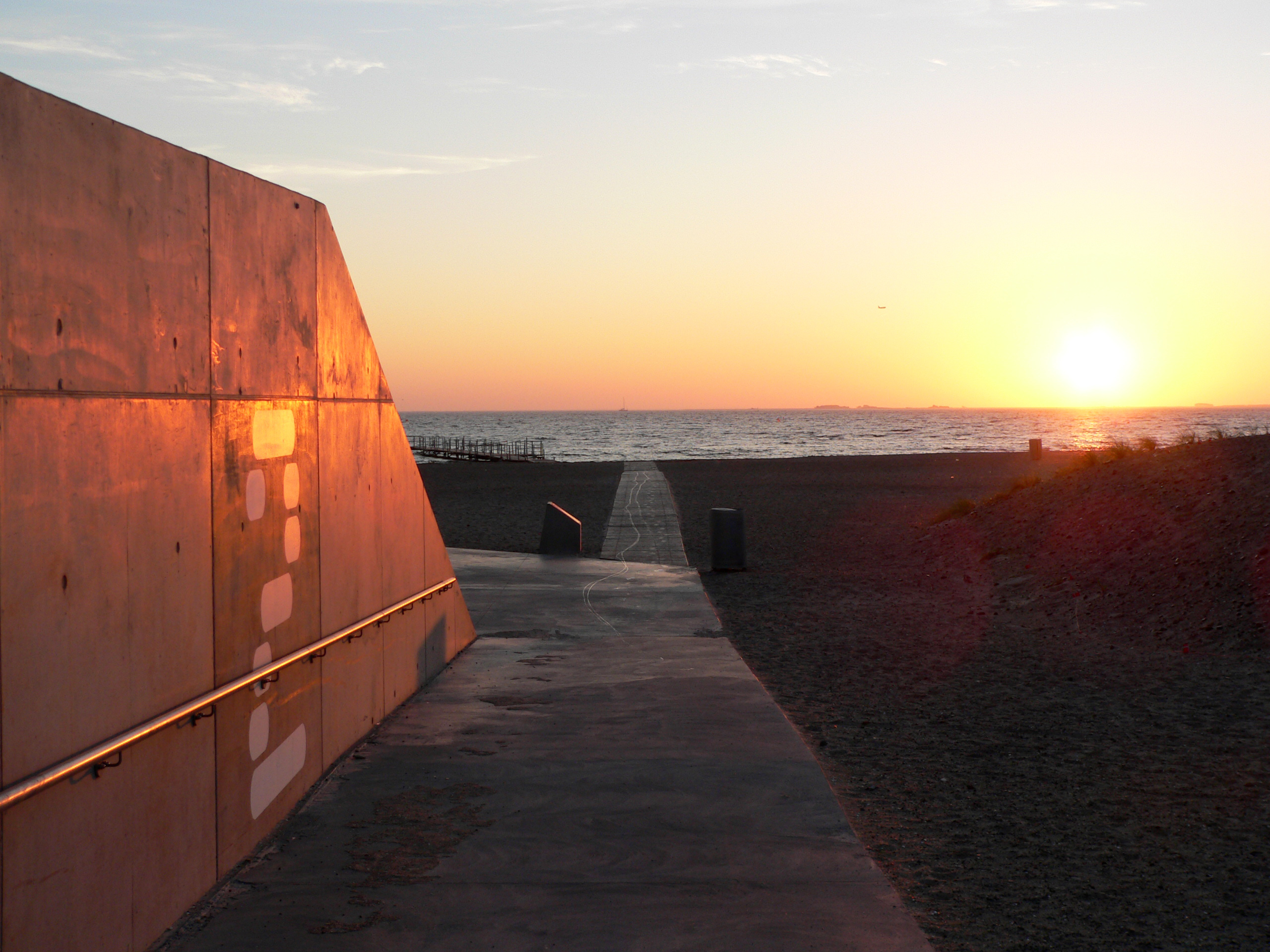 Sunrise at Amager strandpark